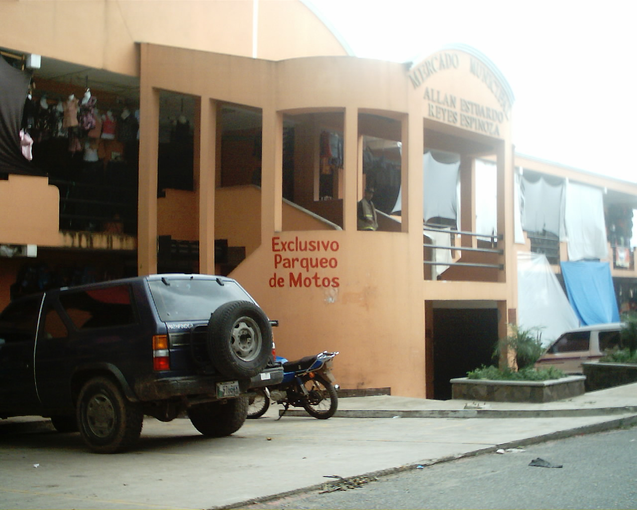 Market of San Jose Pinula, Guatemala